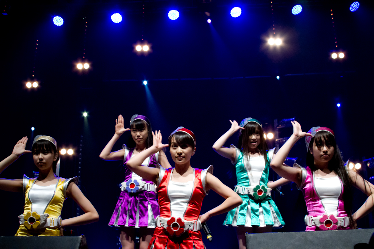 Japan Expo 13 - 2012 Cover pics by Dj ph All sets here : bit.ly/LHdWLq